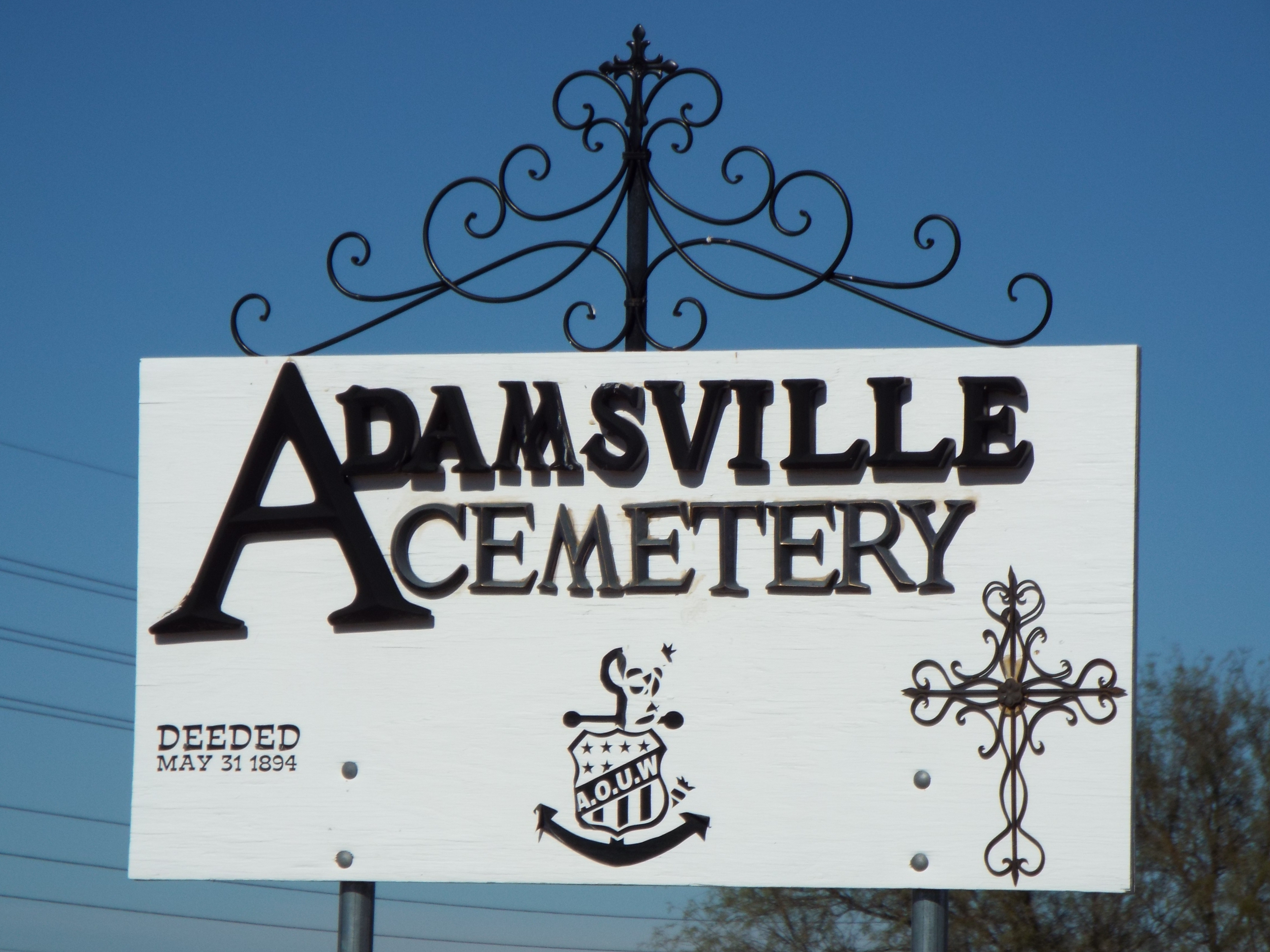 Adamsville A.O.U.W. Cemetery in Adamsville, AZ. deeded May 31, 1894